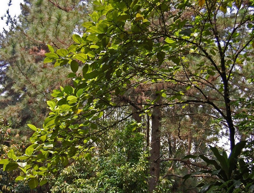 Bellucia axinanthera tree. Bogor, West Java, Indonesia